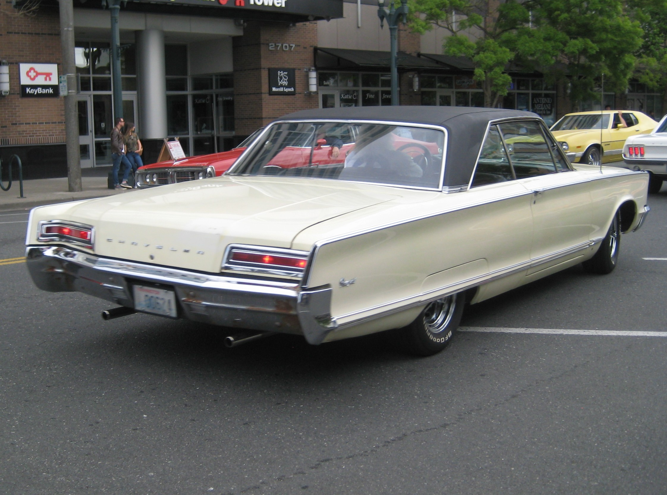 Seen in the Cruise on Colby Avenue, Everett, Washington.